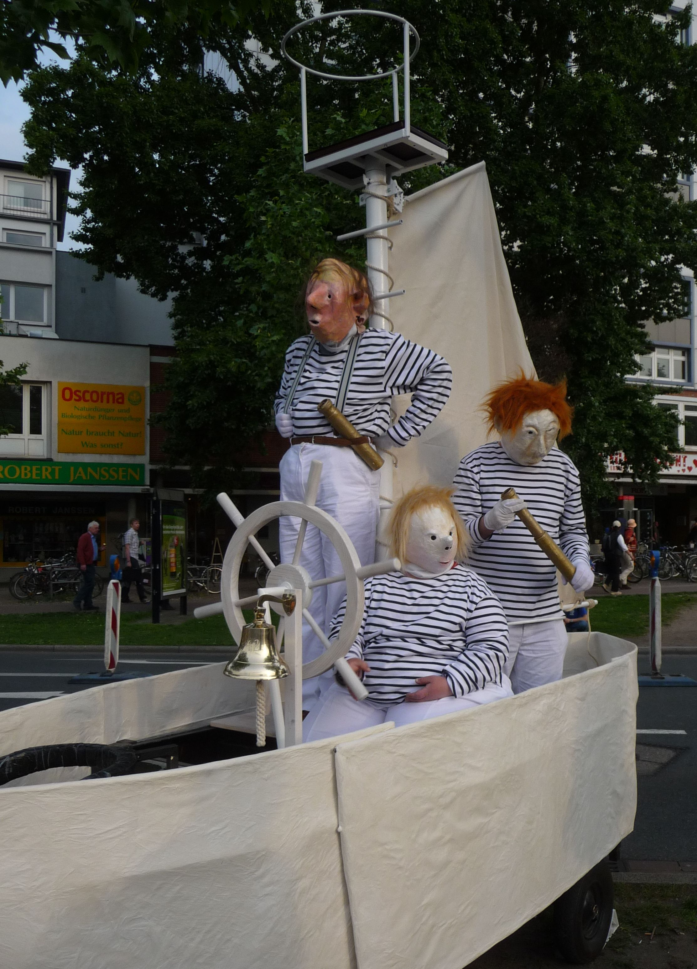 Deutscher Evangelischer Kirchentag 2009 (Abend der Begegnung)